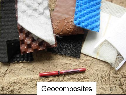 Geocomposites